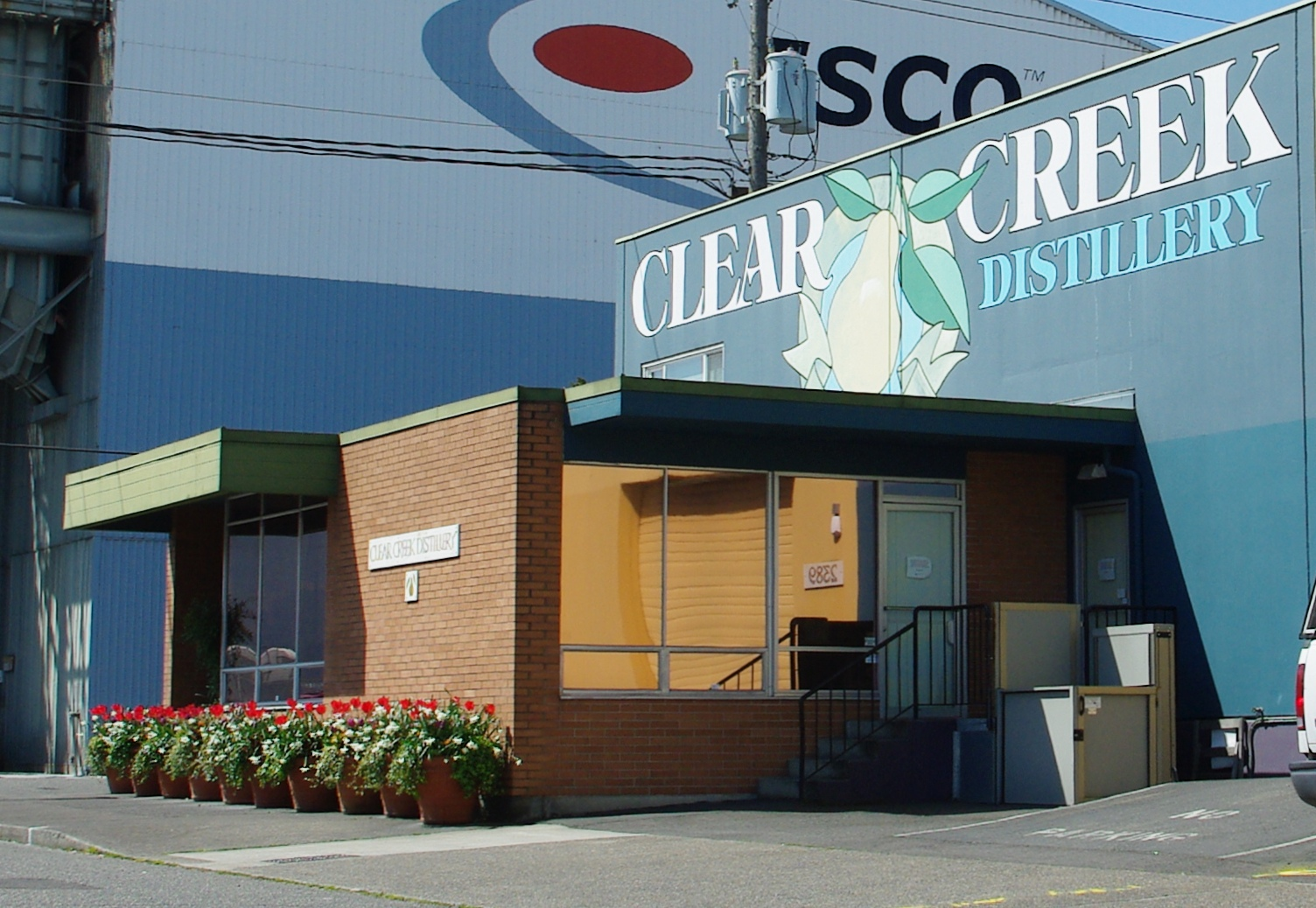 Headquarters of Clear Creek Distillery in Northwest, Portland, Oregon.